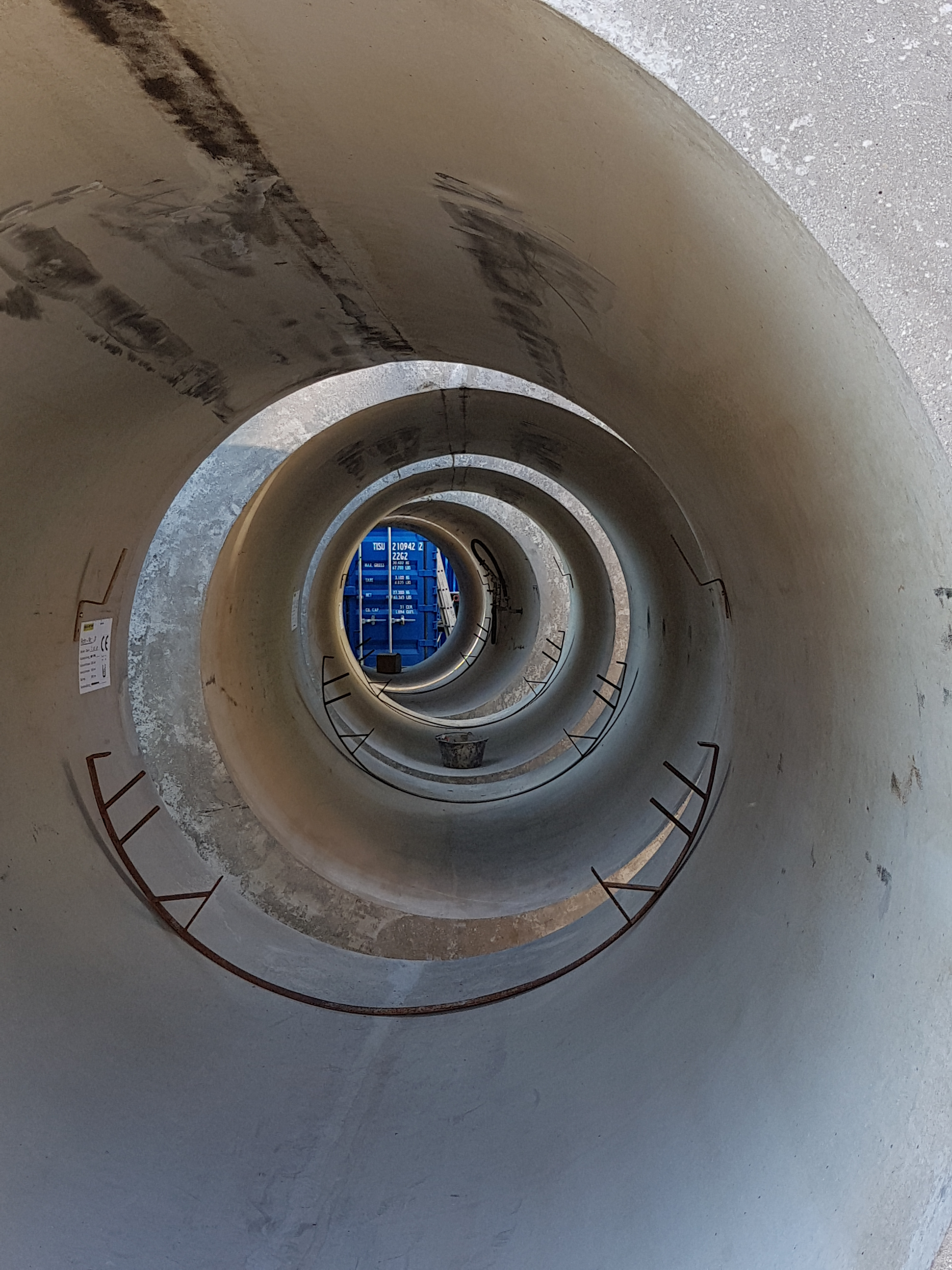 Construction area of the Zanzenbergtunnel (Zanzenberg is a hill) in Dornbirn, Vorarlberg, Austria. Concrete pipes made by Kaba for pressing in microtunneling process. 3.5 meters long, 2.50 meters outside diameter, 1.90 meters inside diameter.